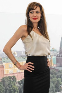 Angelina Jolie at the Moscow «Salt» premiere, July 26, 2010.